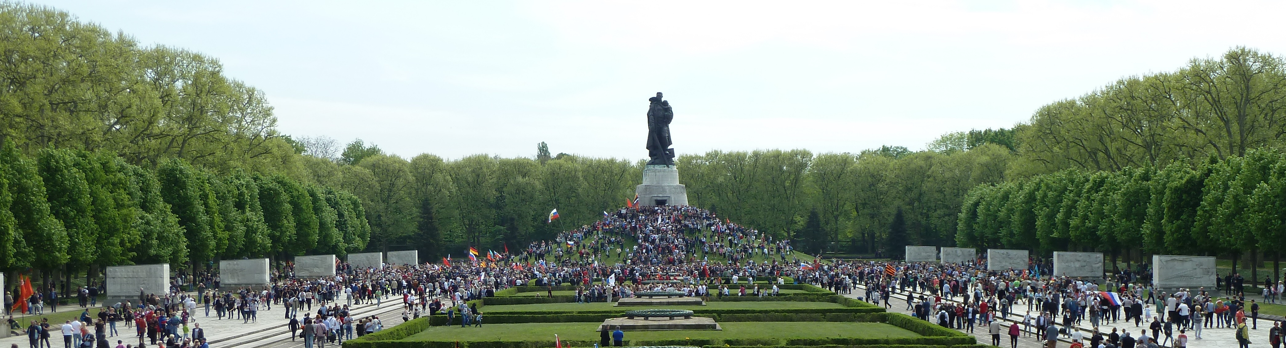 the Soviet War Memorial in Treptow in Berlin, Germany, on the 9th of May 2015, the 70. anniversary of the (russian) victory day